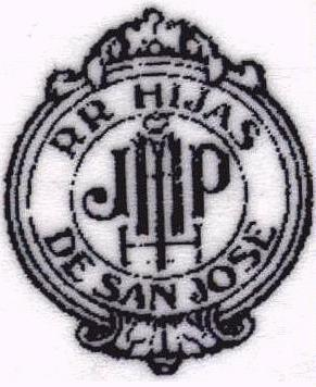 Emblem of the congregation of Daughters of Saint Joseph, from a book, 1901